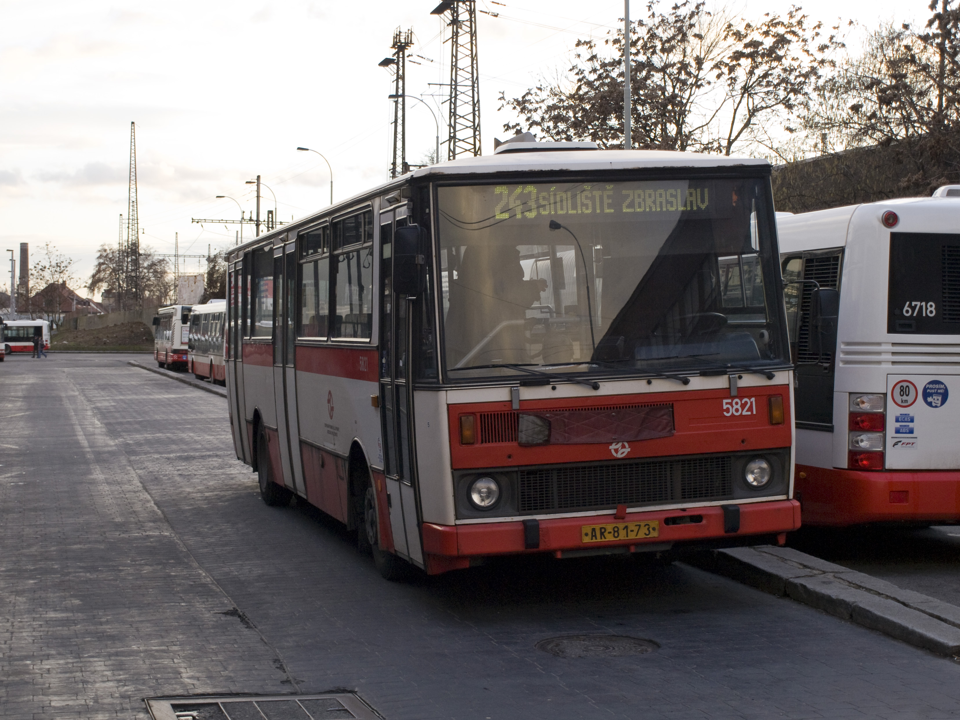 Karosa B 732, Smíchovské nádraží, Prague